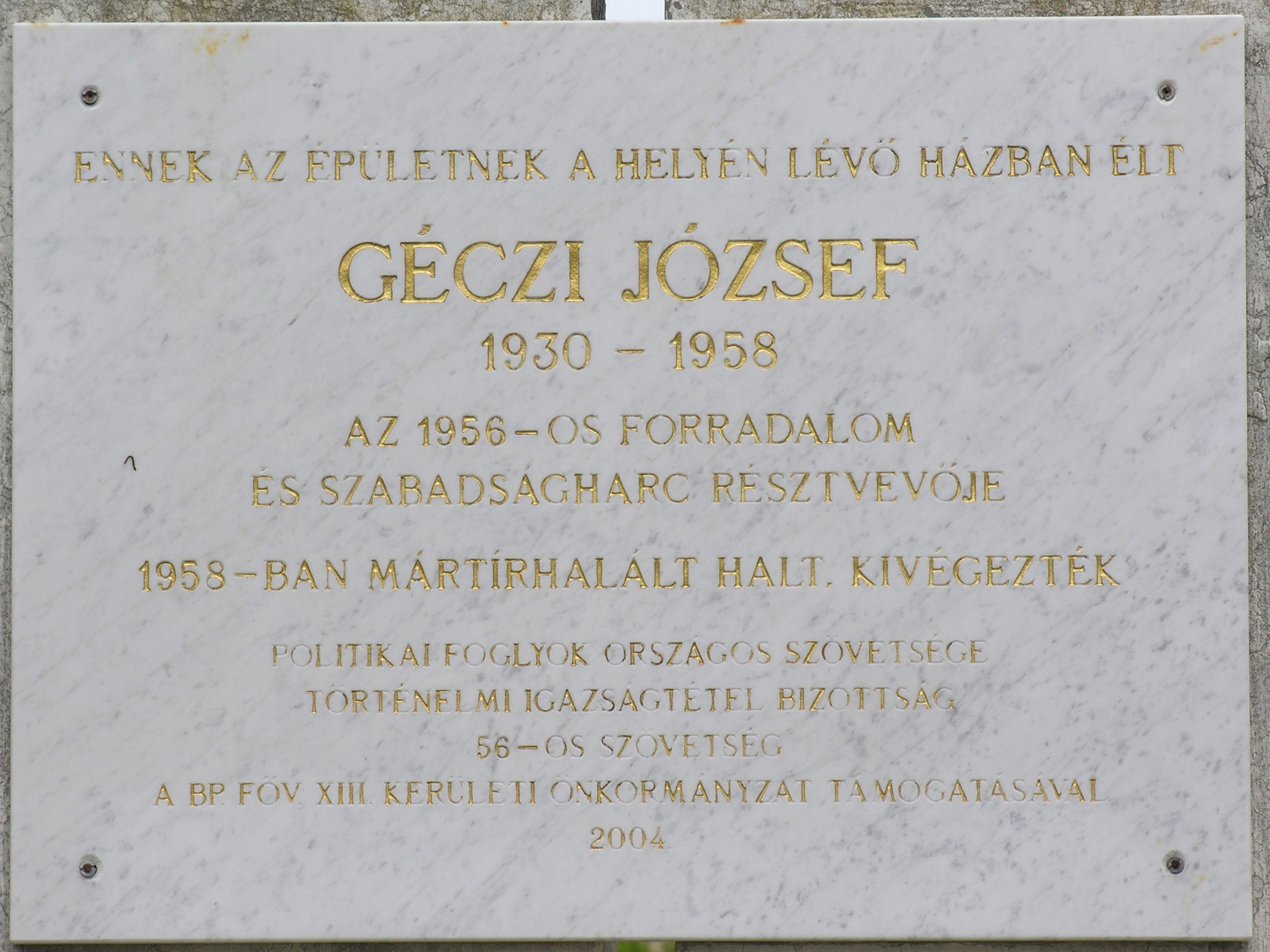 Commemorative plaque of József Géczi in Budapest District XIII, Országbíró Street No 52